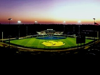 A view of the John Cain Family Softball Field which is home to Lady Lion Softball.